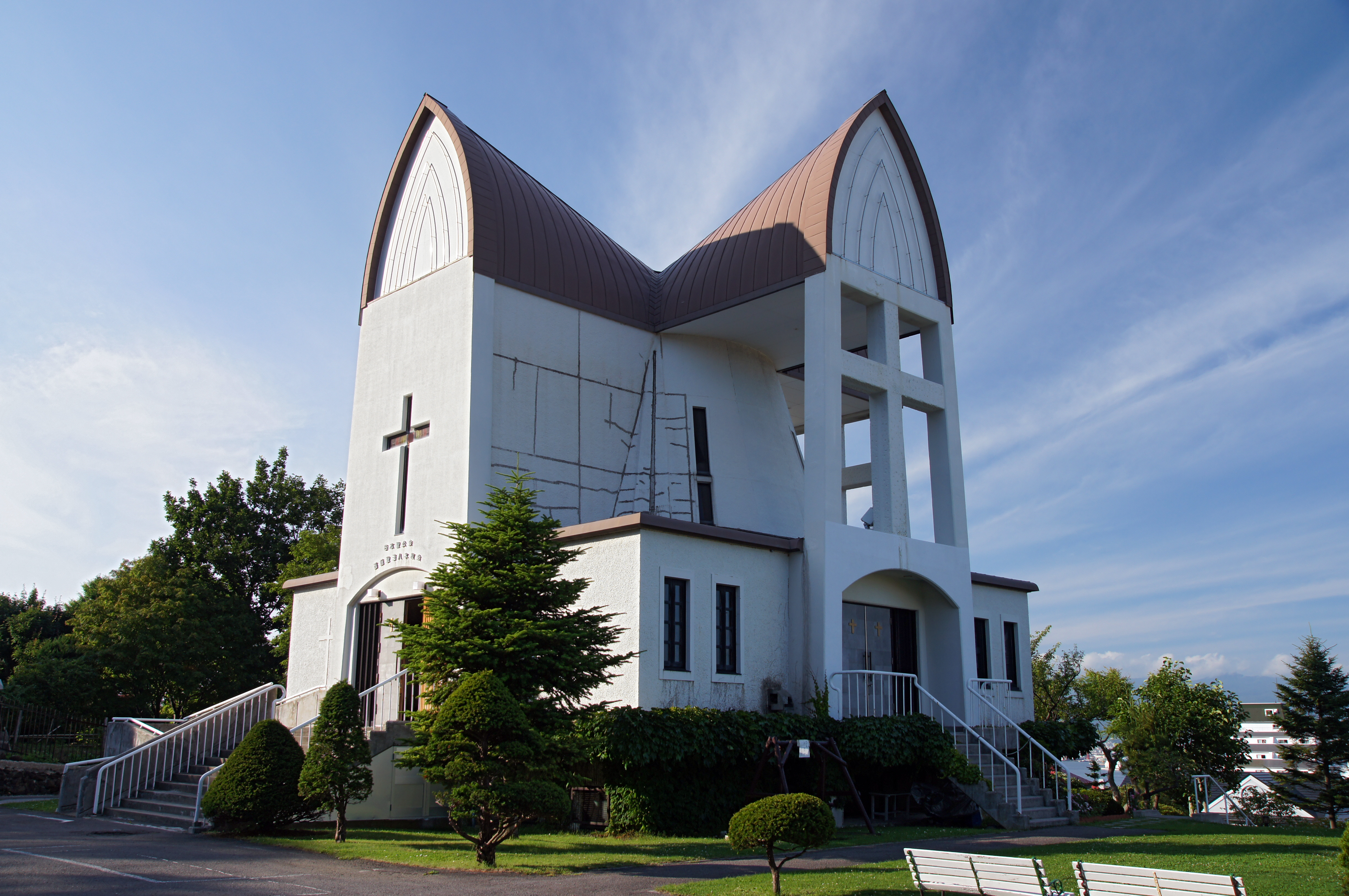 St. John's Church Hakodate in Hakodate, Hokkaido prefecture, Japan